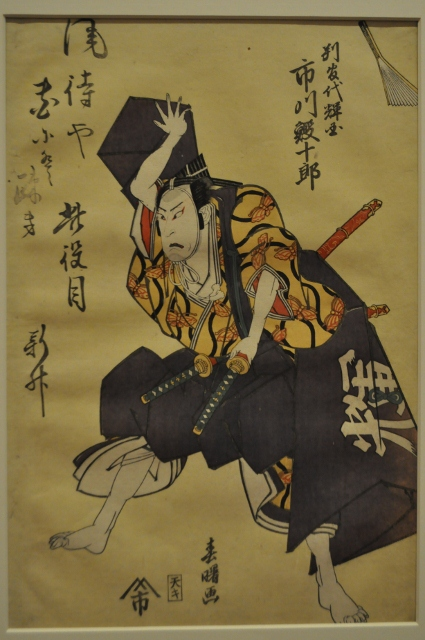 Actor Ichikawa Ebijuro as Samurai (Shunshosai Hokucho)